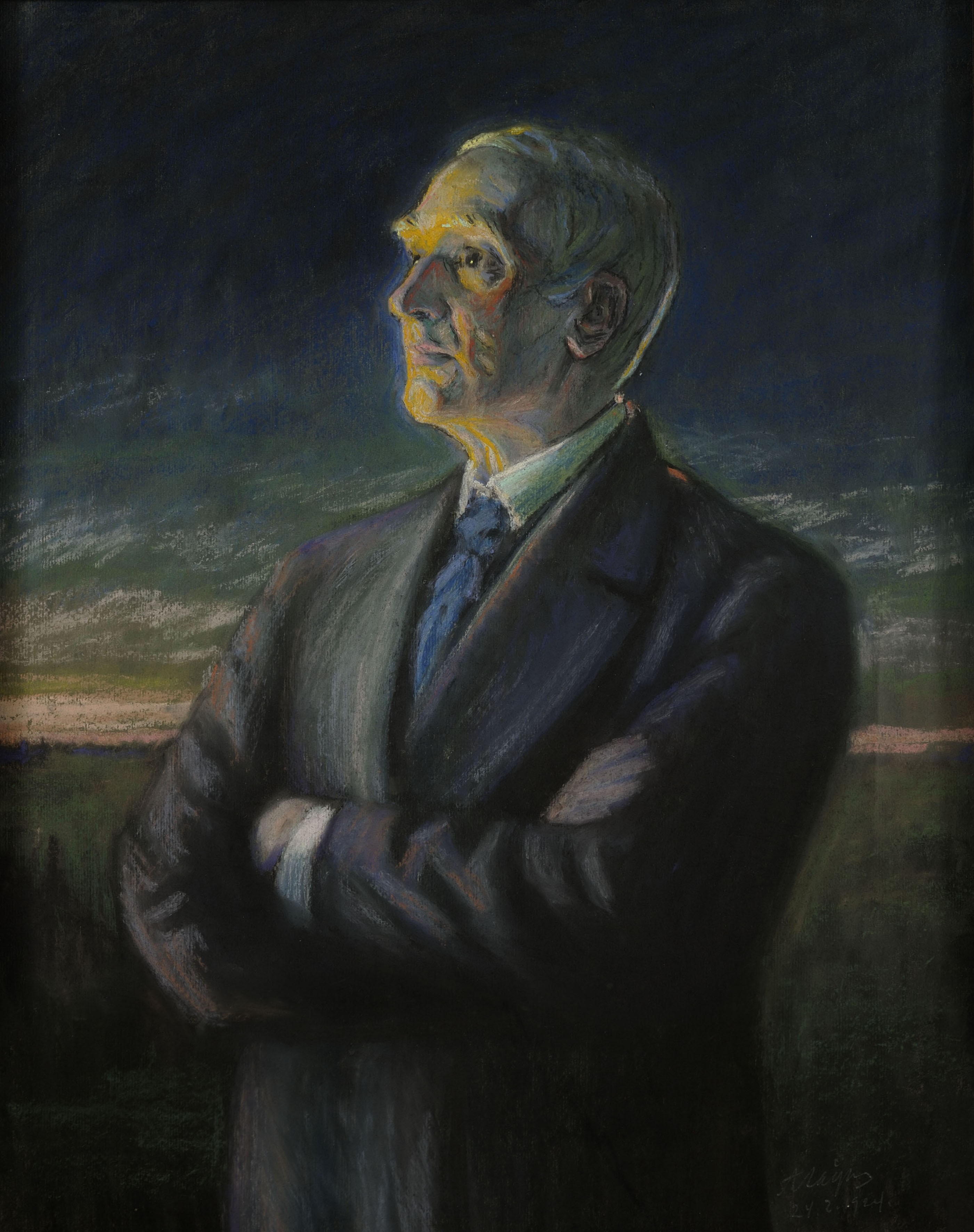 Ants Laikmaa "Portrait of Fr.R. Kreutzwald" (also "In the Distance I See Home Thriving"); 1924; pastel/paper.